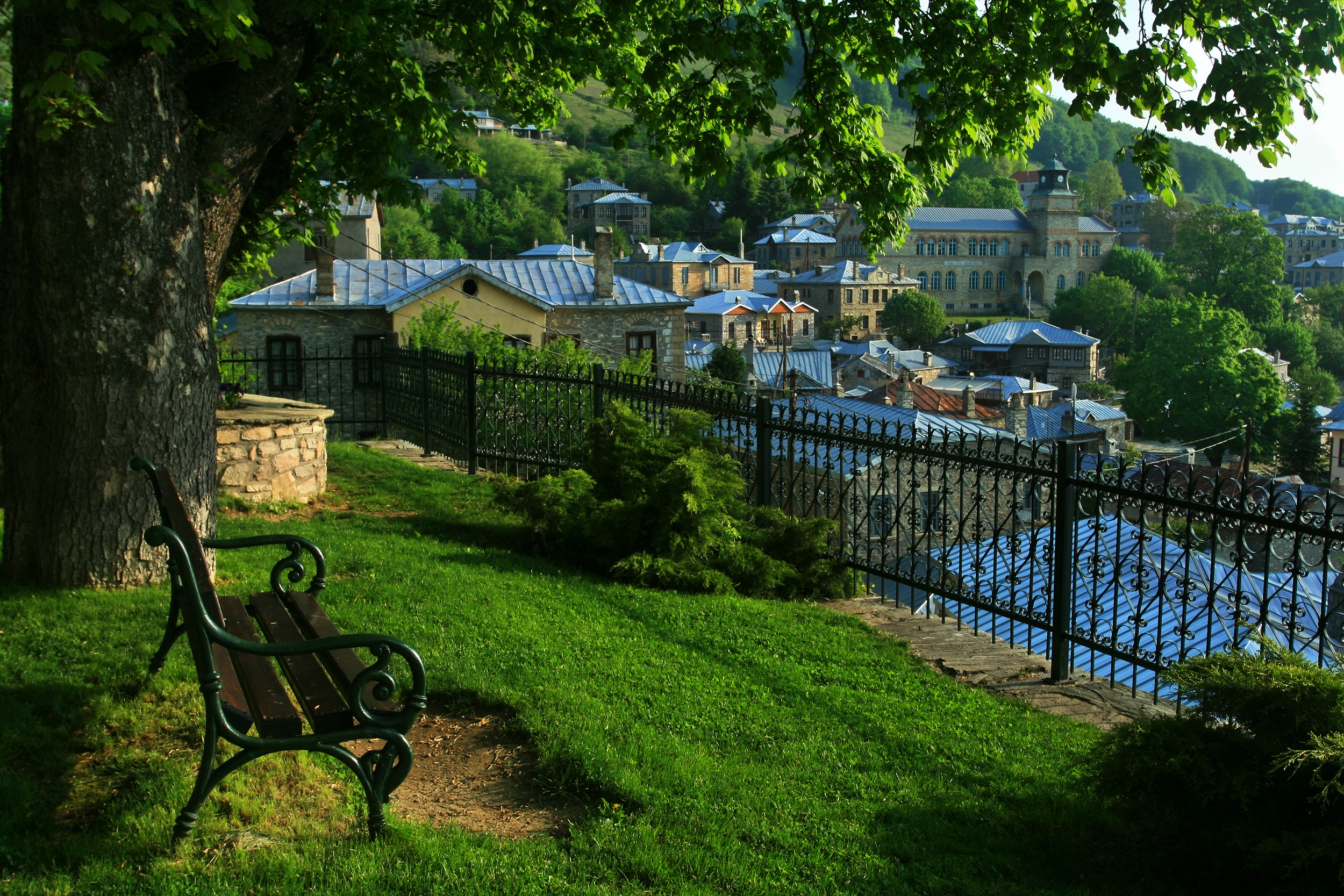 This is a photography of Natura 2000 protected area with ID GR1340006